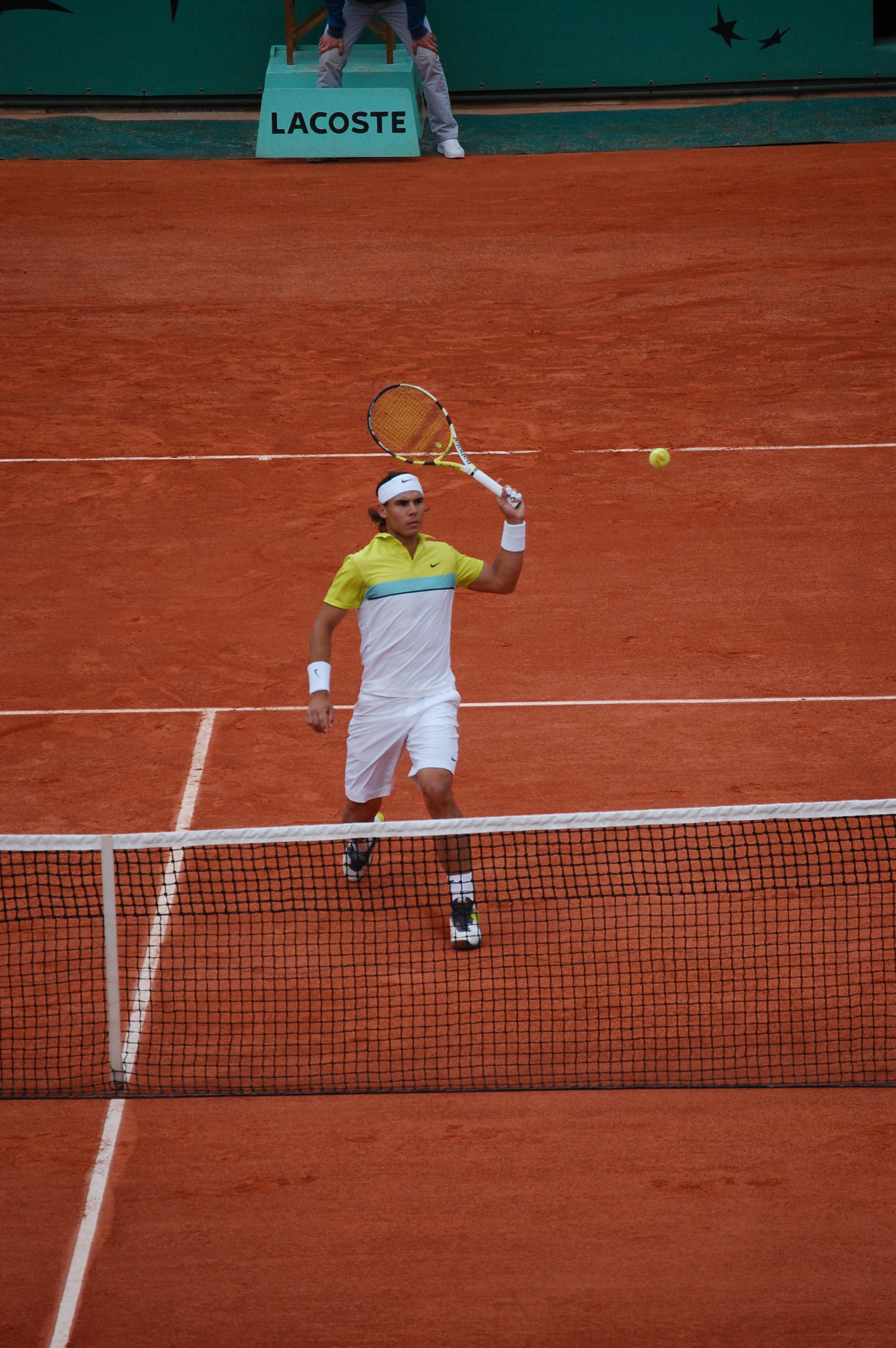 Rafael Nadal during exhibition match in Roland Garros 2009